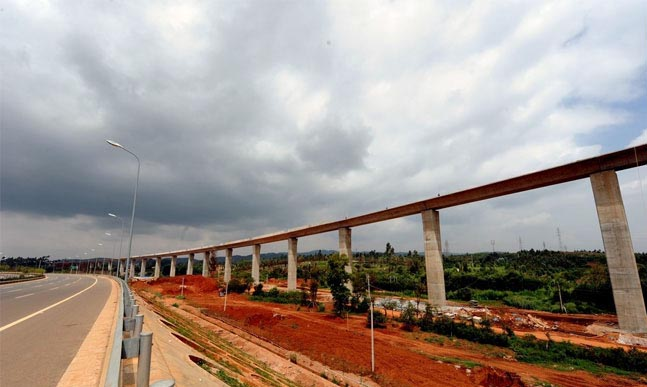 Line 6 of the Kunming Metro